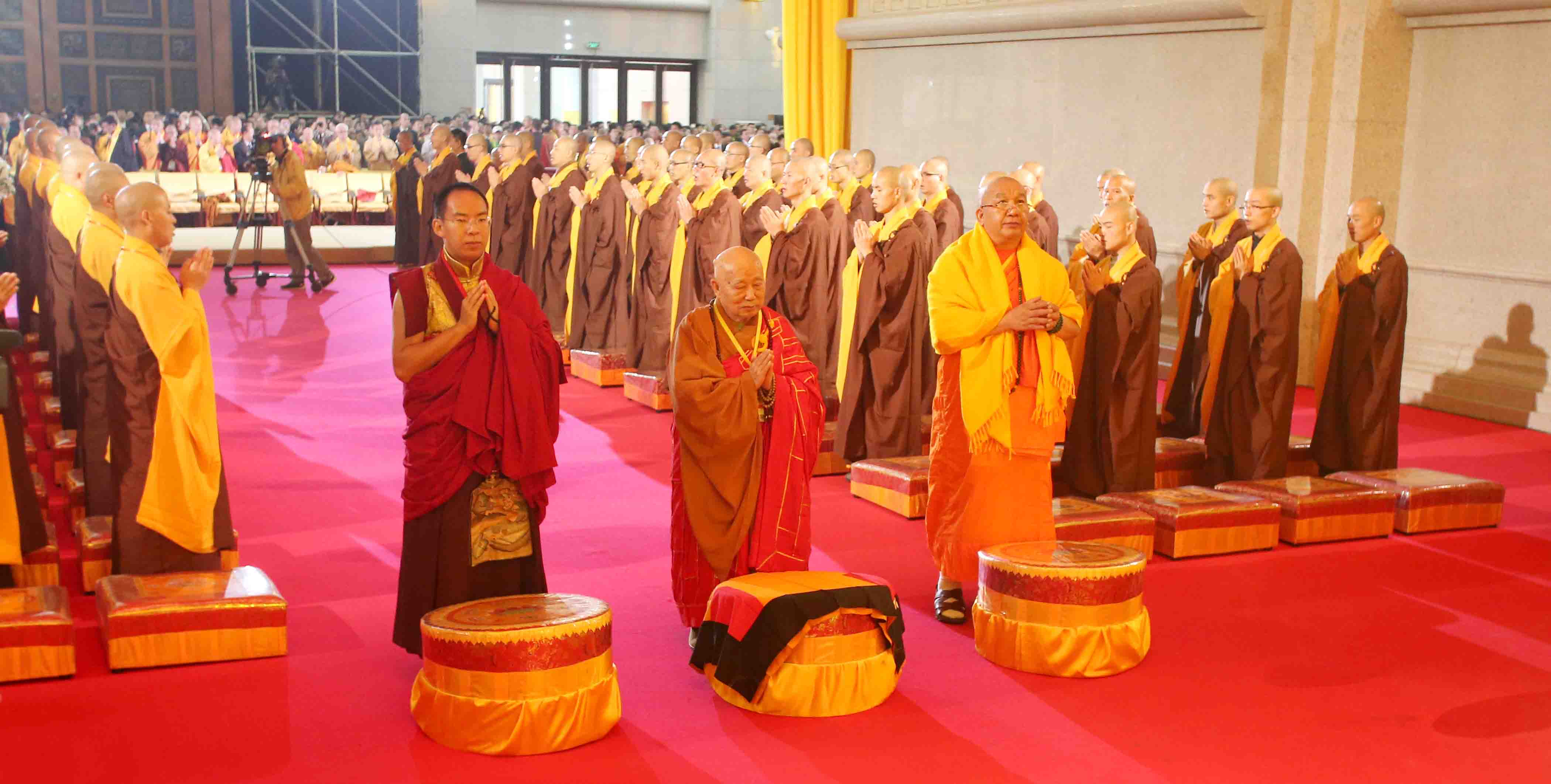 Buddhika SAnjeewa - WFB - The World Fellowship of Buddhists 27th General Conference held on October 16 - 18, 2014 in the Famen Temple Buddhist Cultural Area in Baoji, Shaanxi province. China. Mr. Buddhika Sanjeewa, the Coordinating Officer to His Excellency the President of Sri Lanka was participated as the Sri Lankan Government Special Envoy and presented on the occasion special wishing message of His Excellency the President of Sri Lanka, Mr.Mahinda Rajapaksa for the General Conference in China. More than 600 representatives from 30 nations and regions in the world were in attendance the General Conference.